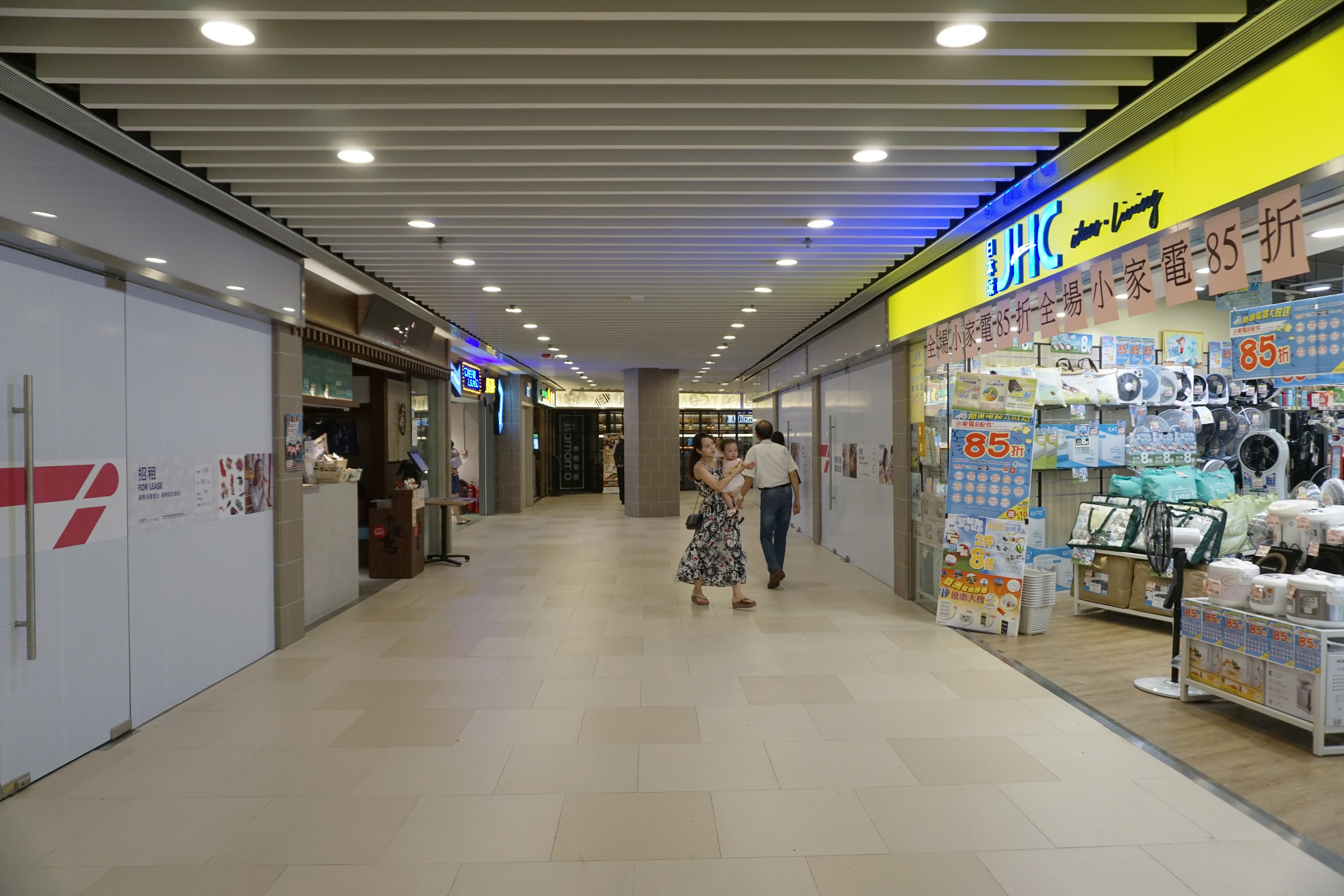 Tin Chak Shopping Centre in Tin Shui Wai, Hong Kong.